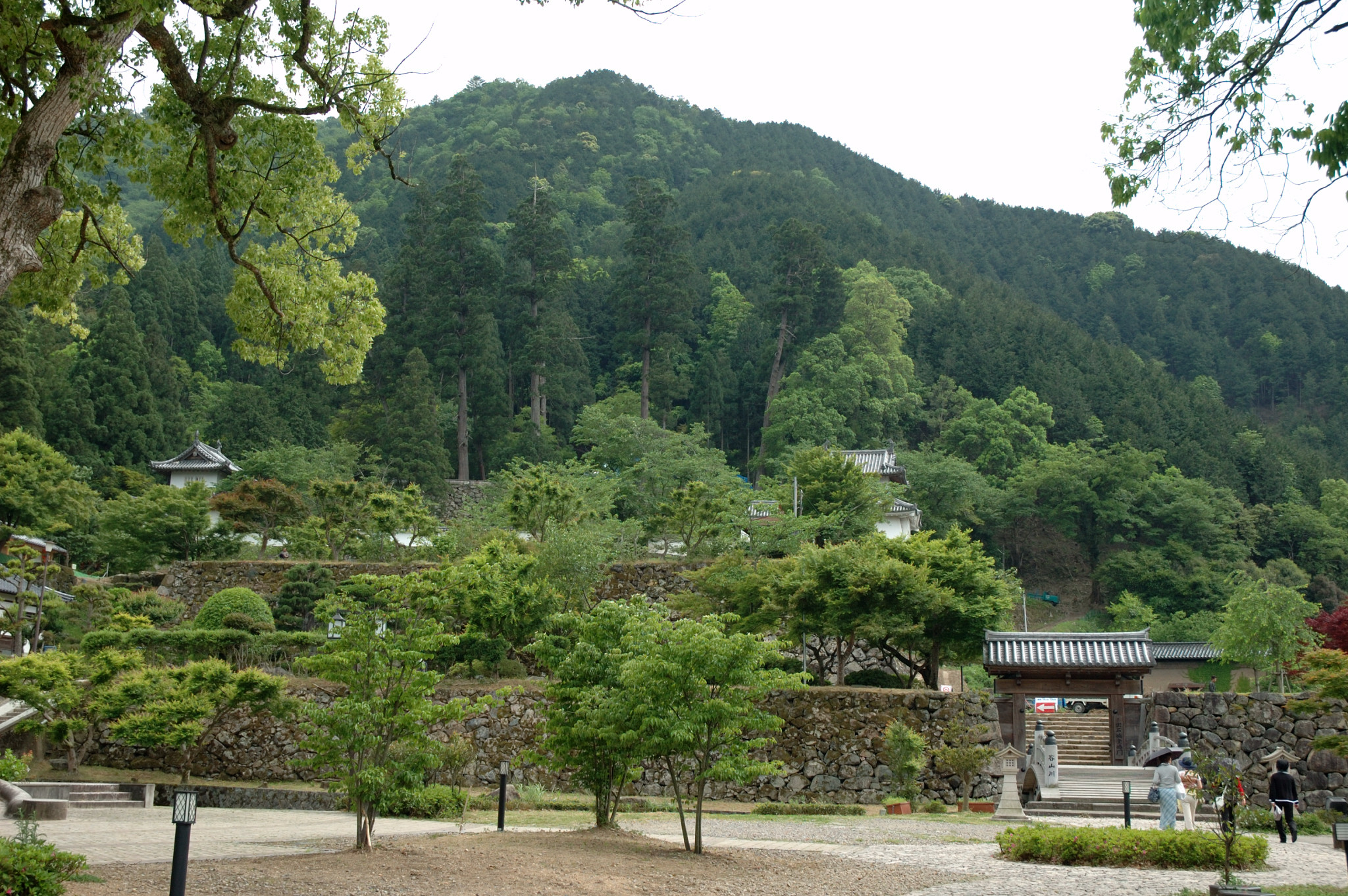 Izushi castle view